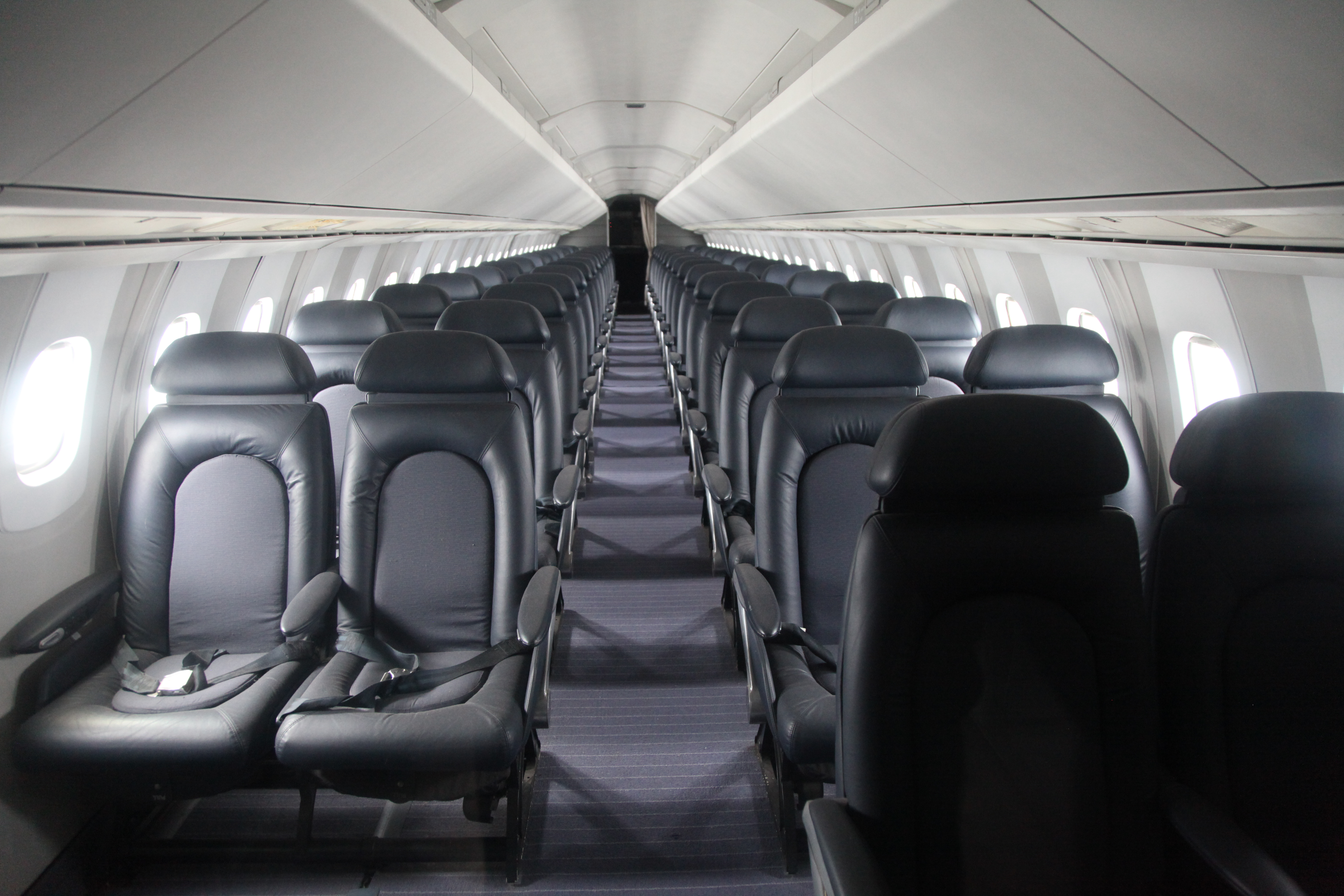 Concorde passenger cabin at the Museum of Flight near Seattle